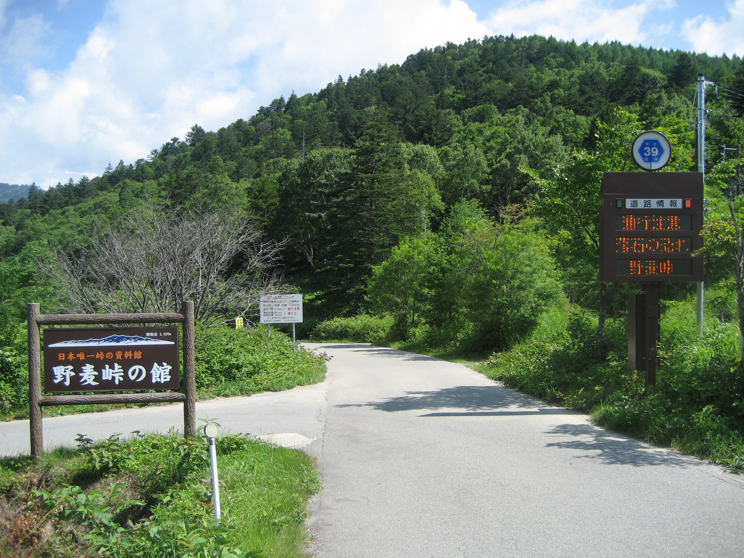 Gifu Prefectural Road Route 39 near Nomugi Pass